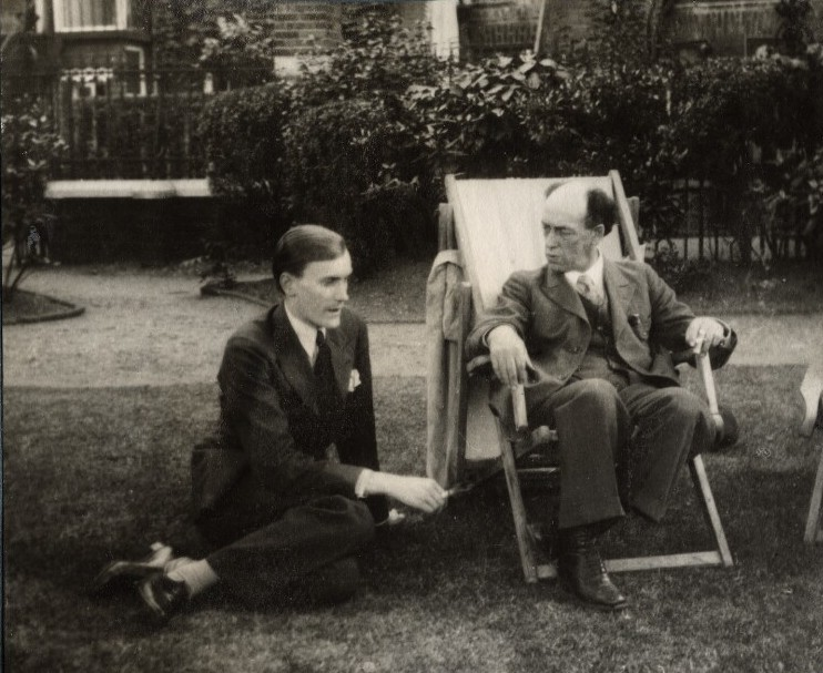 Sir Peter Courtney Quennell; James Stephens by Lady Ottoline Morrell vintage snapshot print, 1929 2 1/2 in. x 3 in. (63 mm x 76 mm) image size Purchased with help from the Friends of the National Libraries and the Dame Helen Gardner Bequest, 2003 Photographs Collection NPG Ax143209